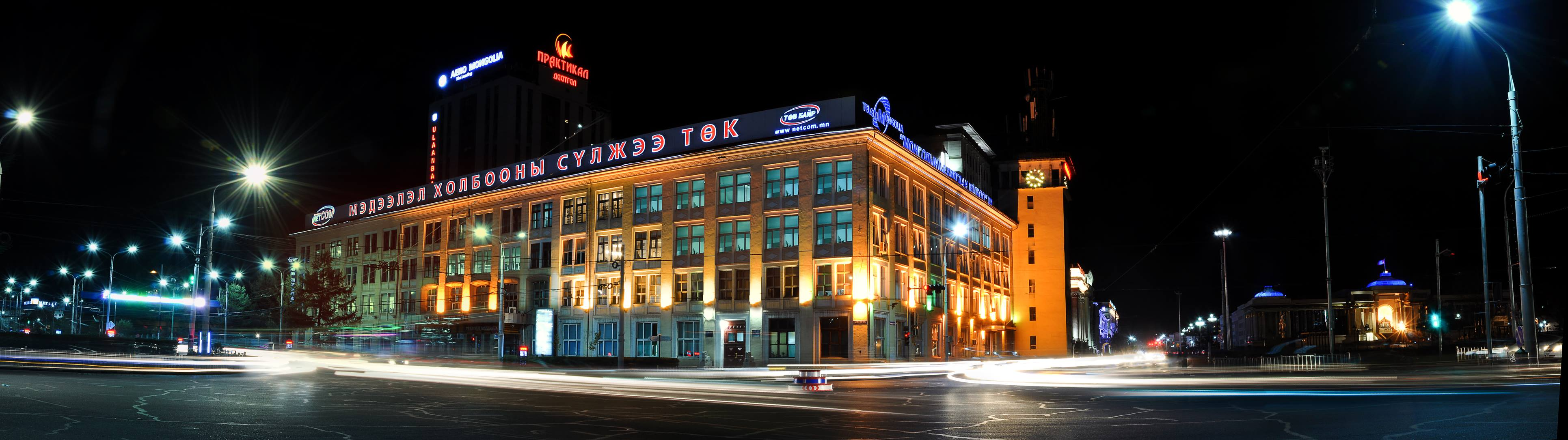 Төв шуудан Чингэлтэй дүүрэг, Энхтайваны өргөн чөлөө-1 Улаанбаатар хот 15160, Монгол Улс Central post Building Peace avenue-1, Chingeltei district Ulaanbaatar-15160, Mongolia